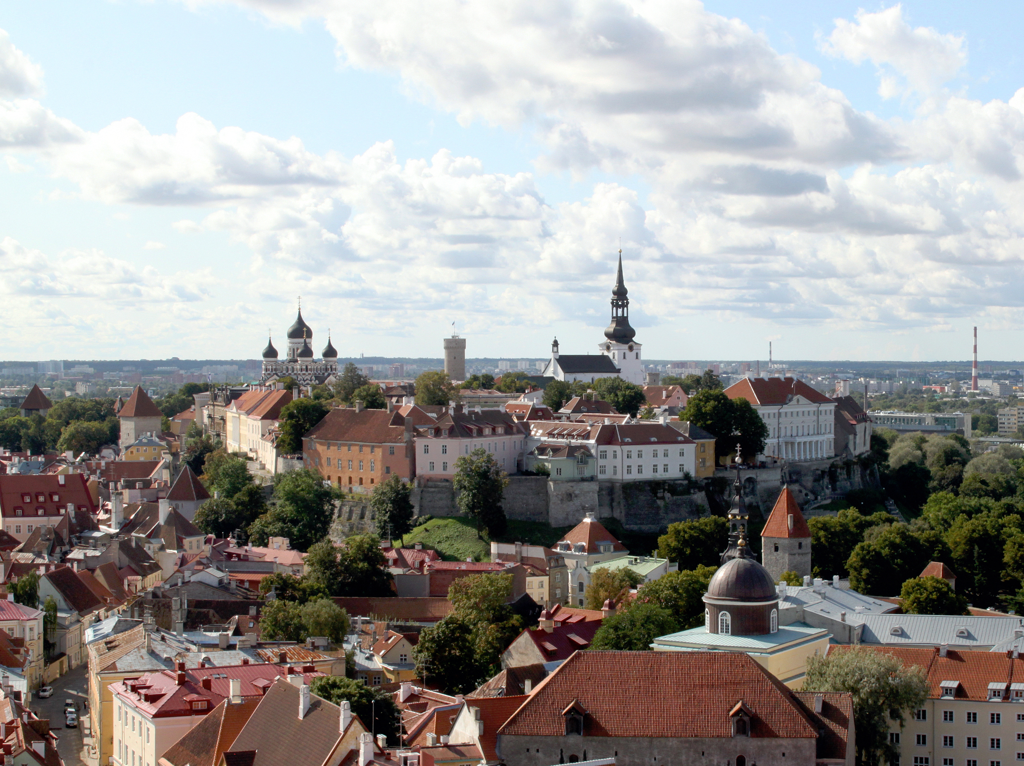 Toompea seen from the tower of St. Olaf's church.